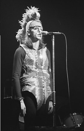 Peter Gabriel as 'Britannia' performing Dancing With The Moonlit Knight with Genesis; Massey Hall, Toronto, Nov 8th 1973